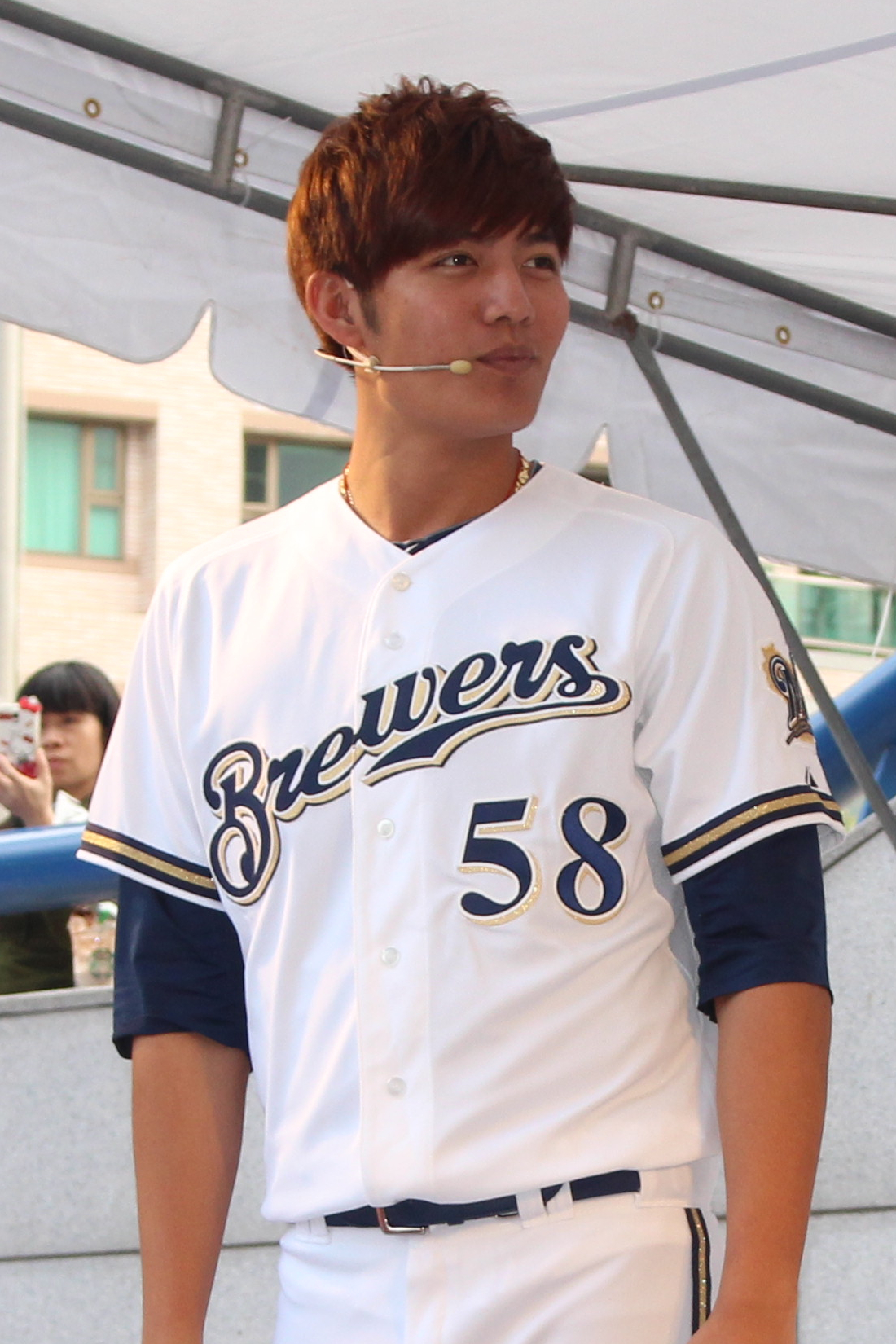 Wei-Chung Wang, Taiwanese baseball pitcher, appeared at MLB Baseball Park 中文（台灣）: 臺灣棒球投手王維中出席MLB棒球樂園。